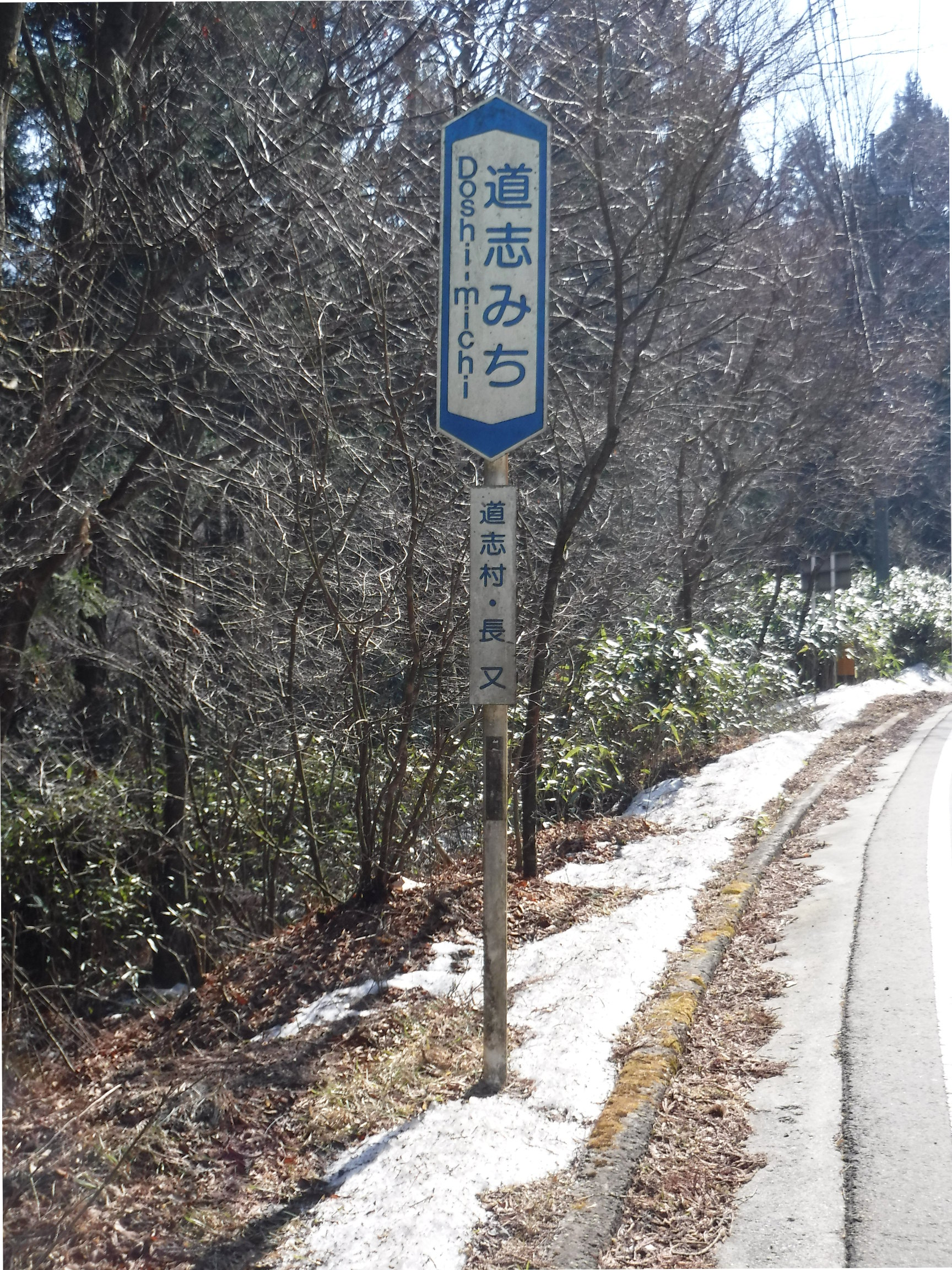 Sign along Japan national route 413 (in Nagamata, Dōshi-mura, Yamanashi; roughly 35°28′41″N, 138°57′08″E) for Dōshi-michi in both Japanese script (道志みち) and roman script ("Doshi-michi") -- both written vertically